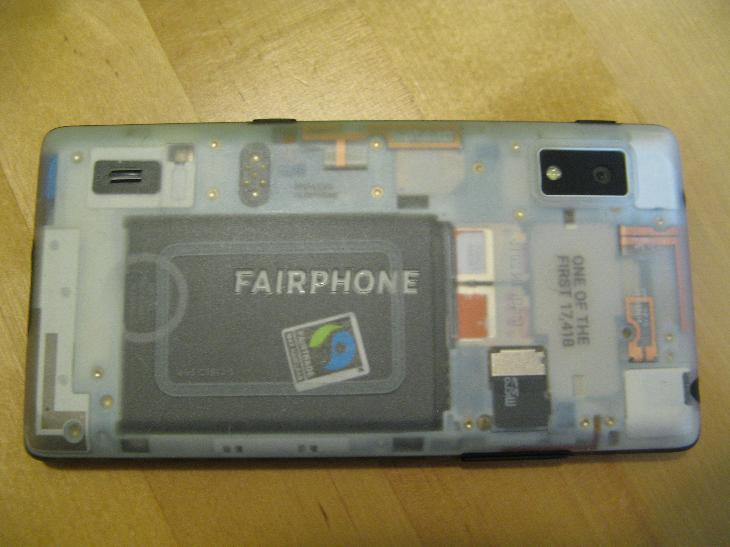 Fairphone 2 reverse